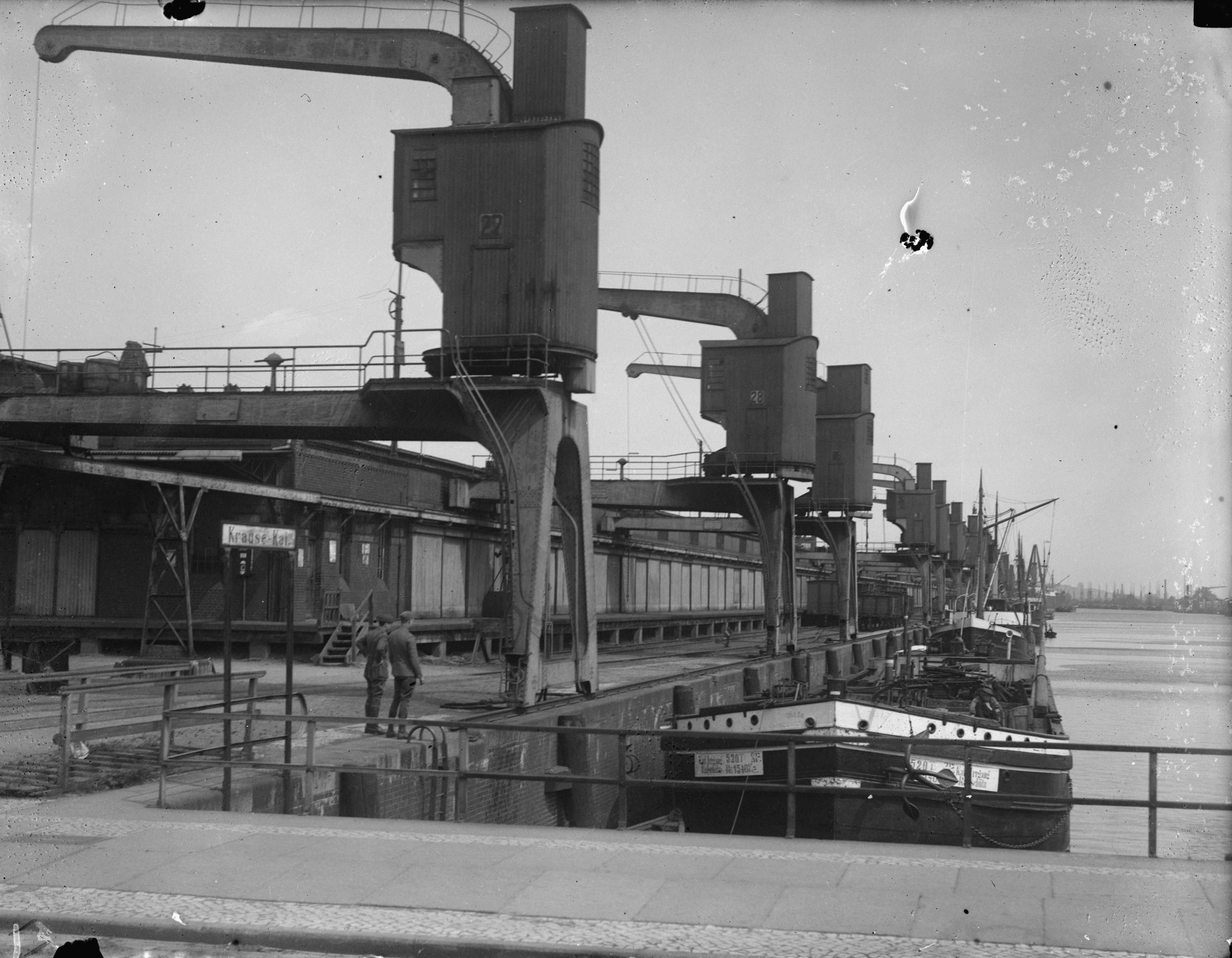 Title: General view of the American Red Cross Warehouse at Stettin Germany showing the facilities afforded the Red Cross for handling provisions at this port